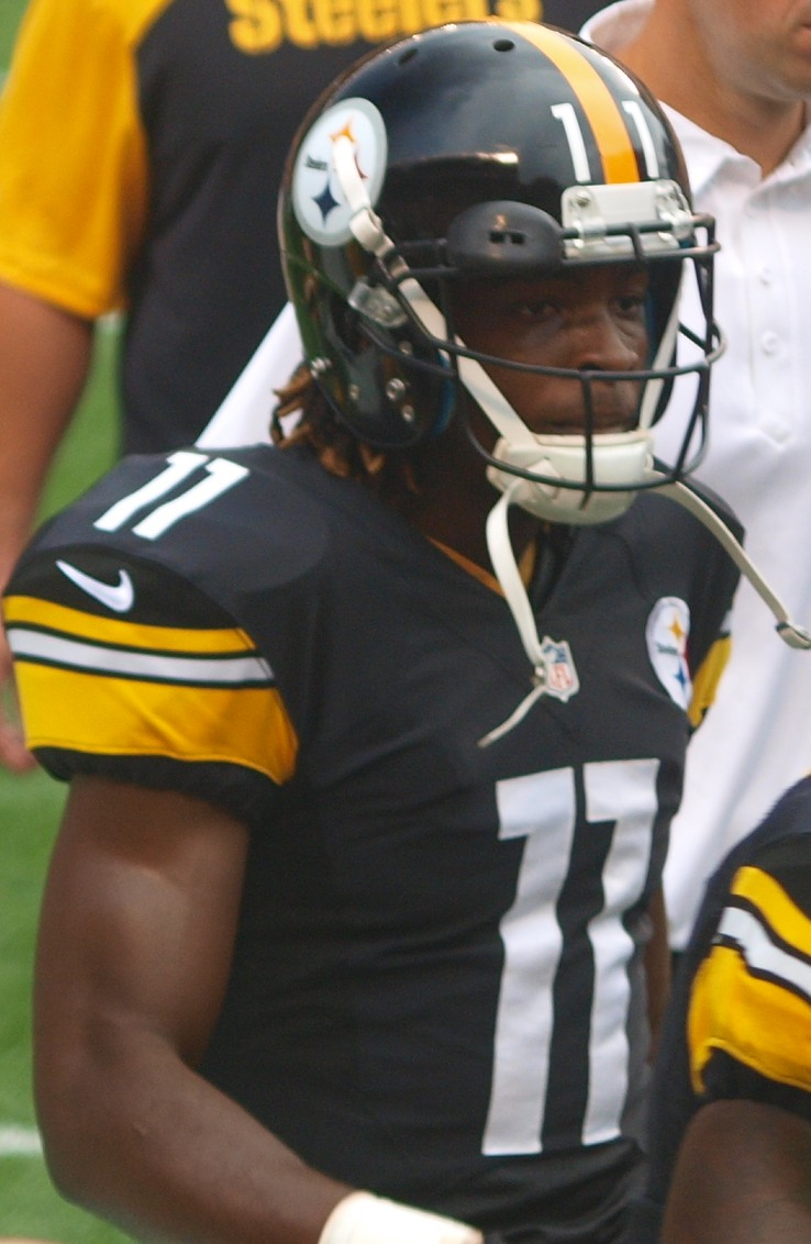 Pittsburgh Steelers wide receiver, Markus Wheaton, in his rookie season.